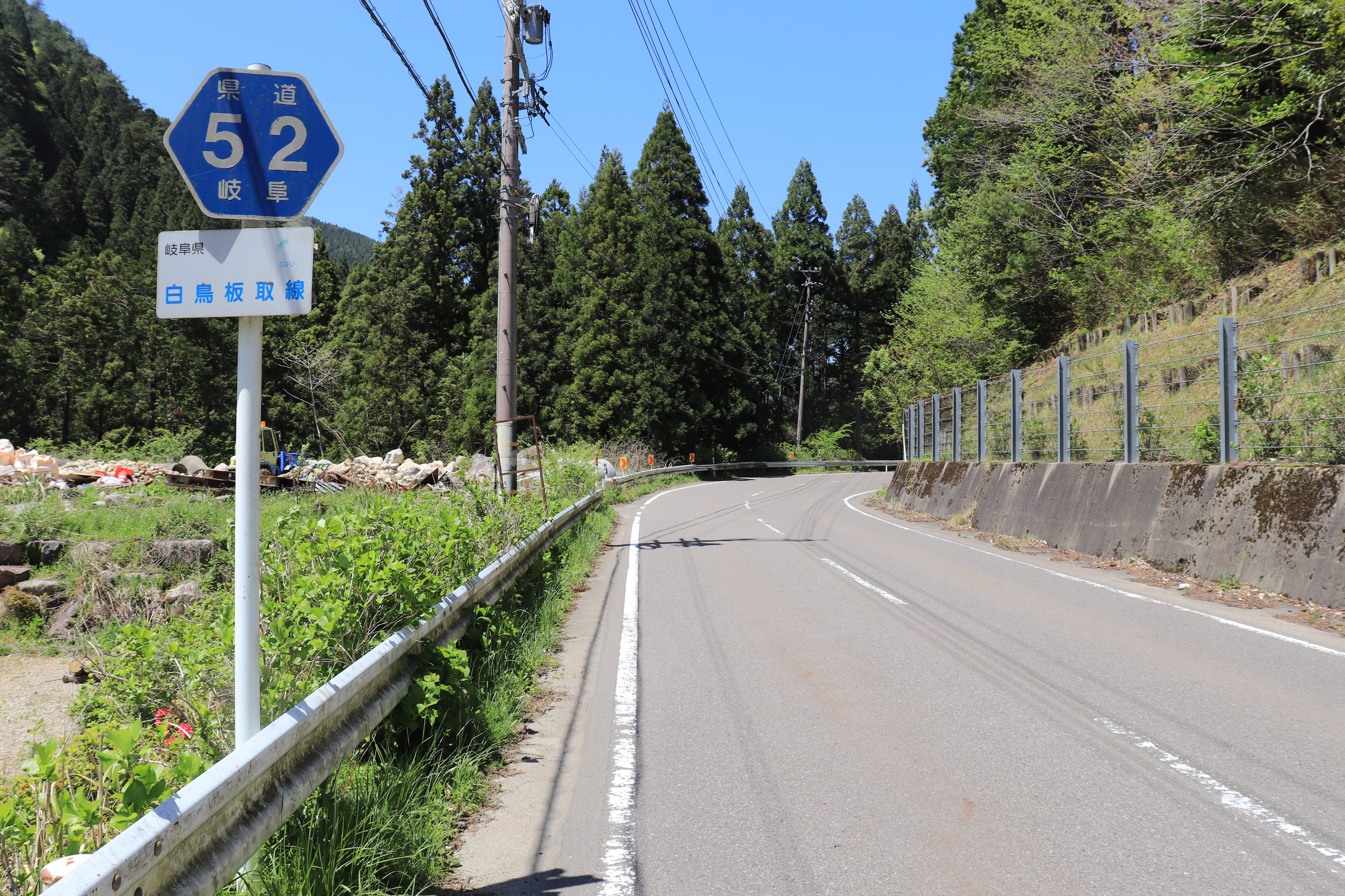 Gifu Prefectural Road Route 52 in Kamigase, Seki, Gifu Prefecture, Japan.